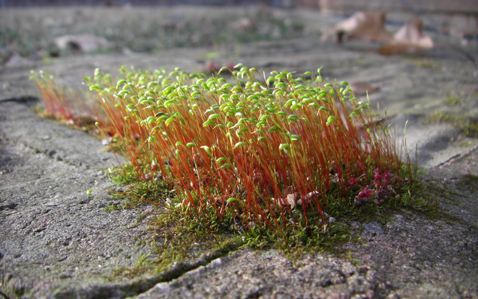 photo of moss